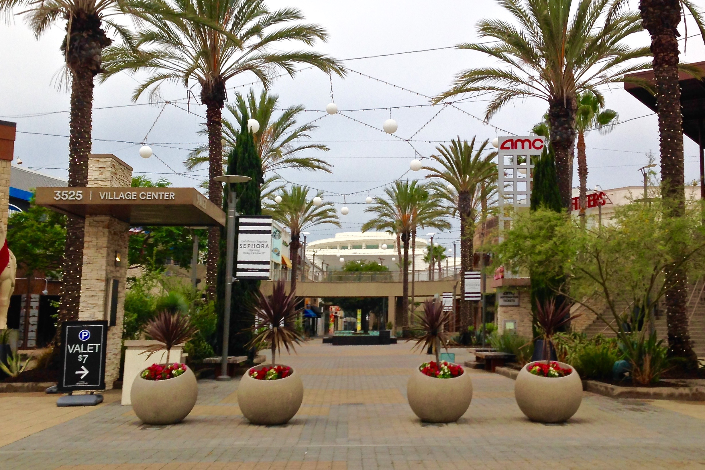 Open-air Lifestyle Court from the Del Amo Fashion Center, looking west.